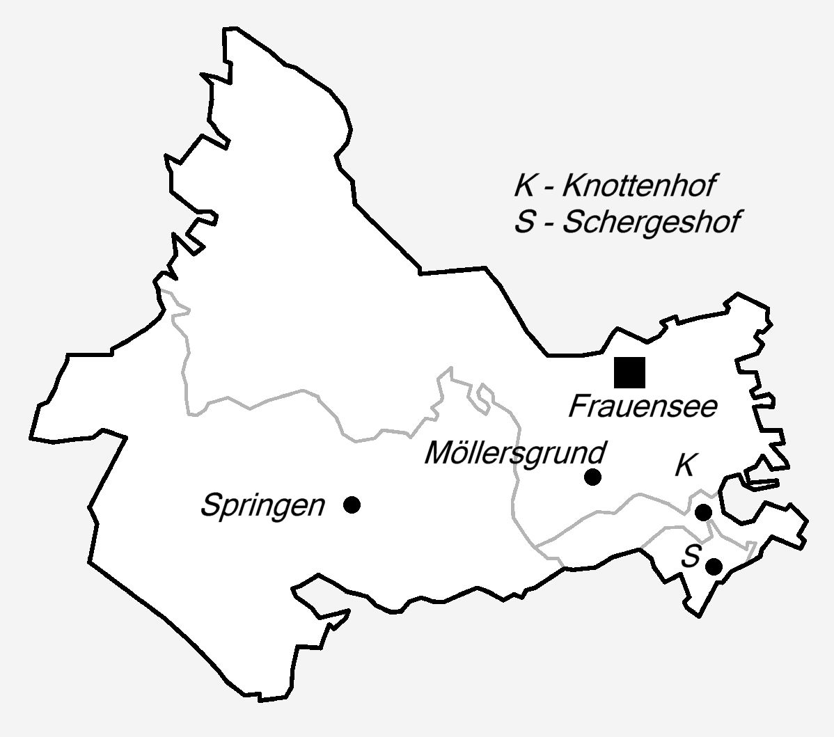 District-Maps of Frauensee.